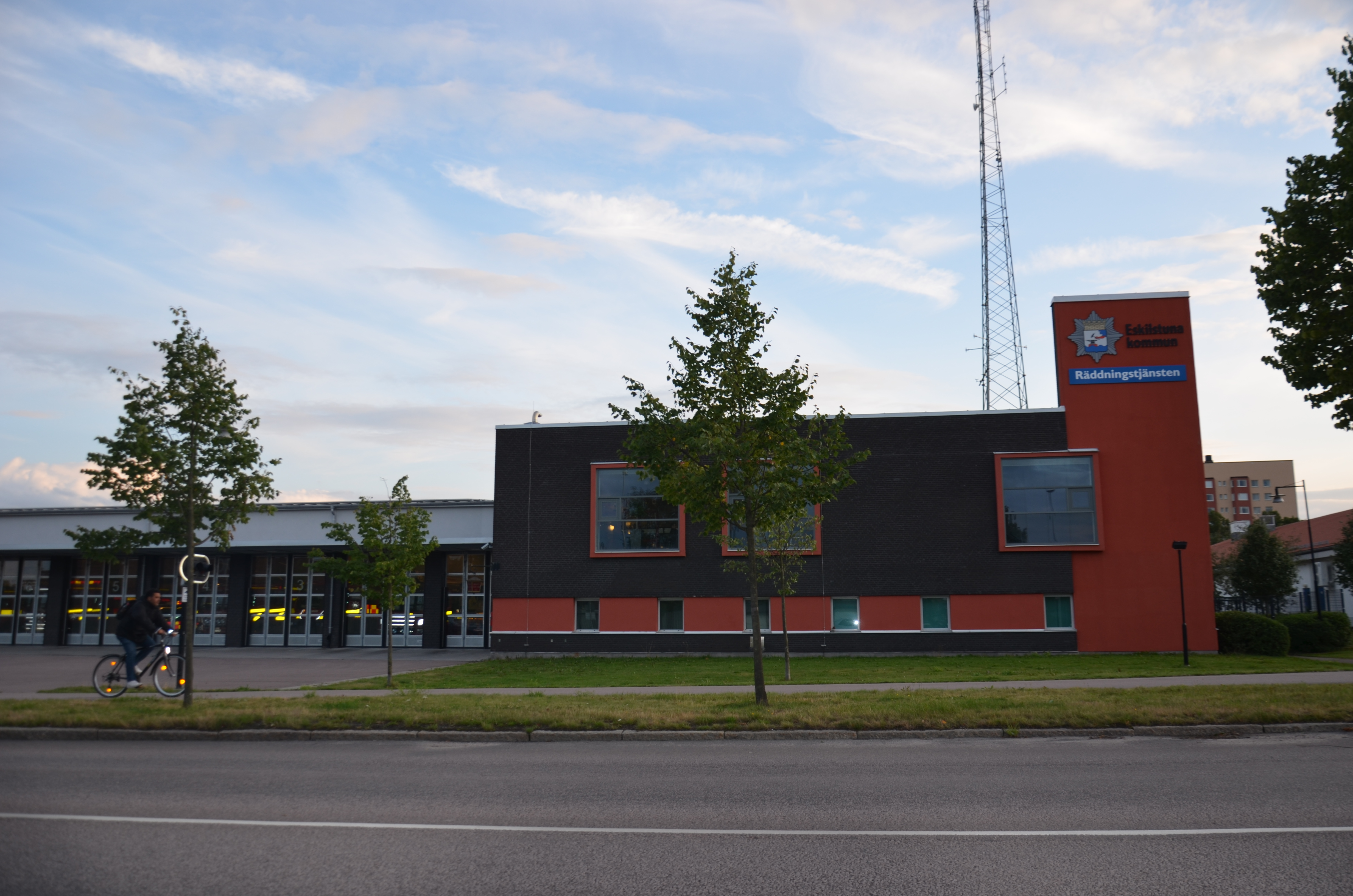 Eskilstuna Fire station